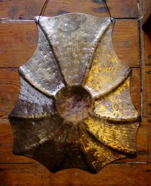 Photograph of Sculptural Gong made in Stainless Steel by gong maker Steve Hubback